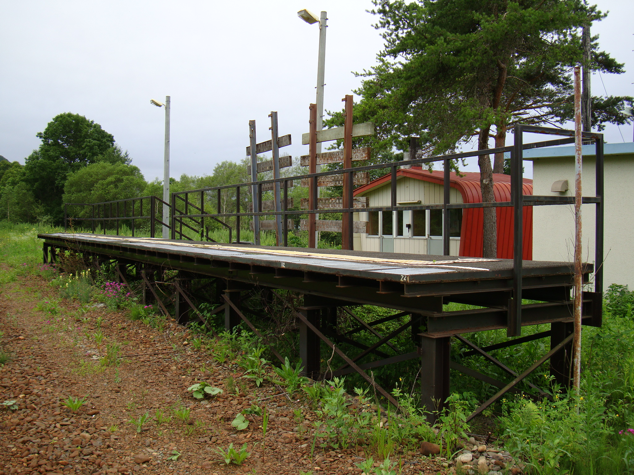 Platform of Aikappu Station on Hokkaidō Chihokukōgen Railway Furusato Ginga Line